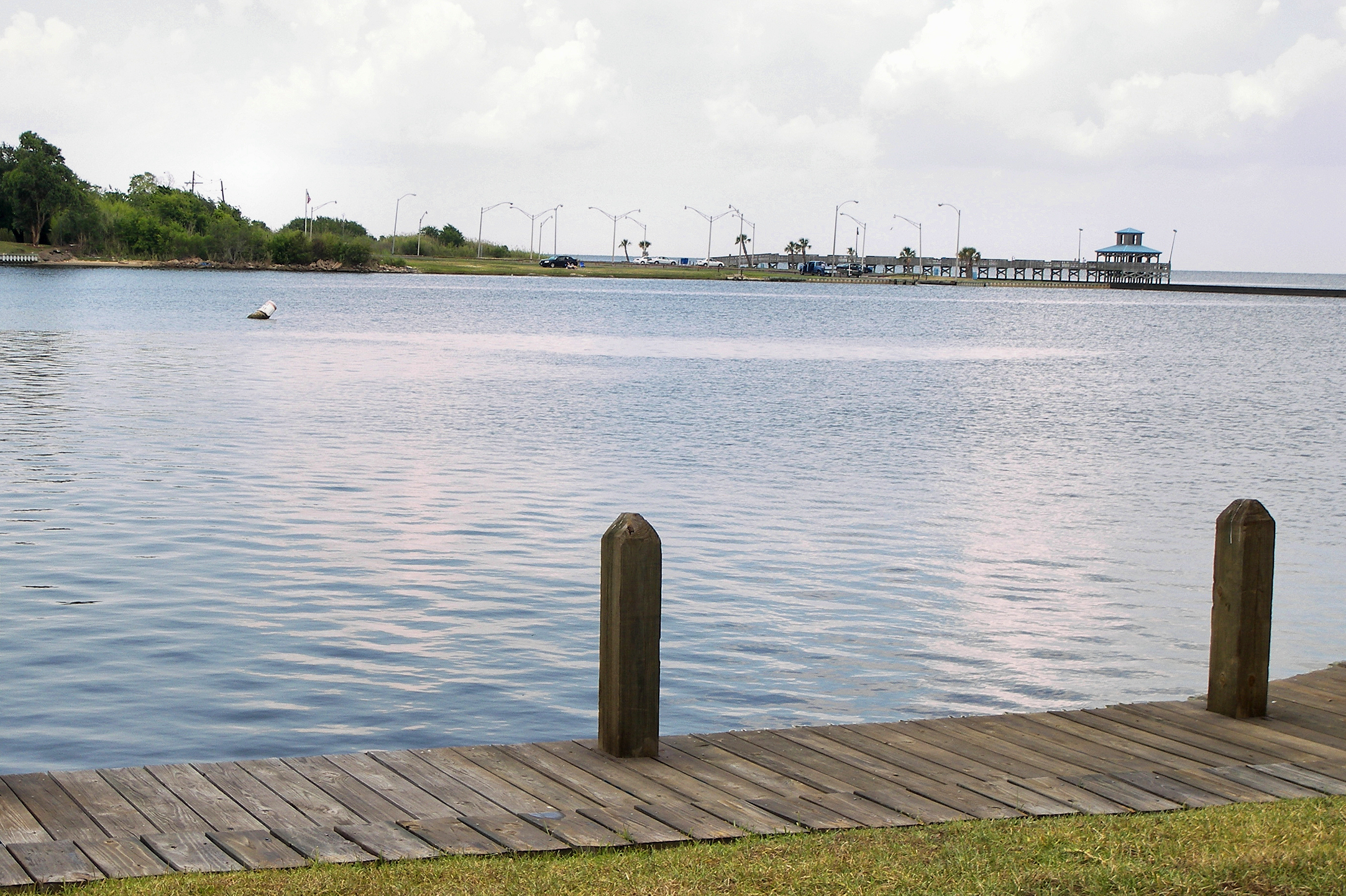 Sabine Lake at Pleasure Island, Port Arthur, Texas, United States